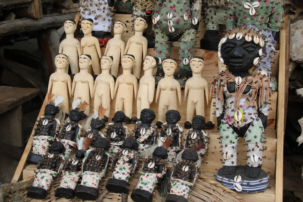 The Akodessawa Fetish Market in Lomé, Togo, West Africa is one of the biggest markets for voodoo paraphernalia.